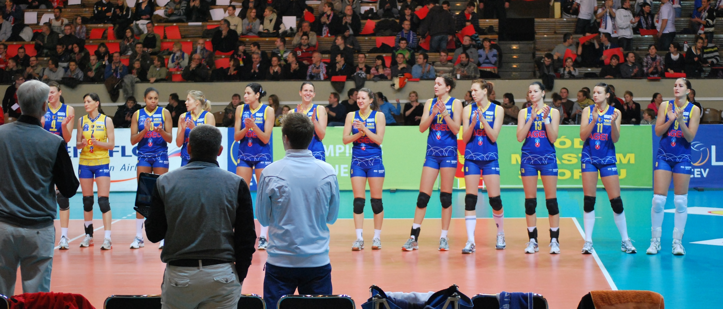 VK Modřanská Prostějov, women's volleyball team from the Czech Republic